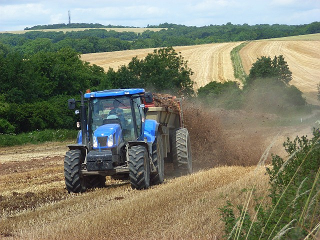 Muck-spreading on Little Down, Slindon The proportions of this field to the west of the bridleway are extremely skinny. No sooner has this year's barley been harvested than preparation of the land begins for the next crop.